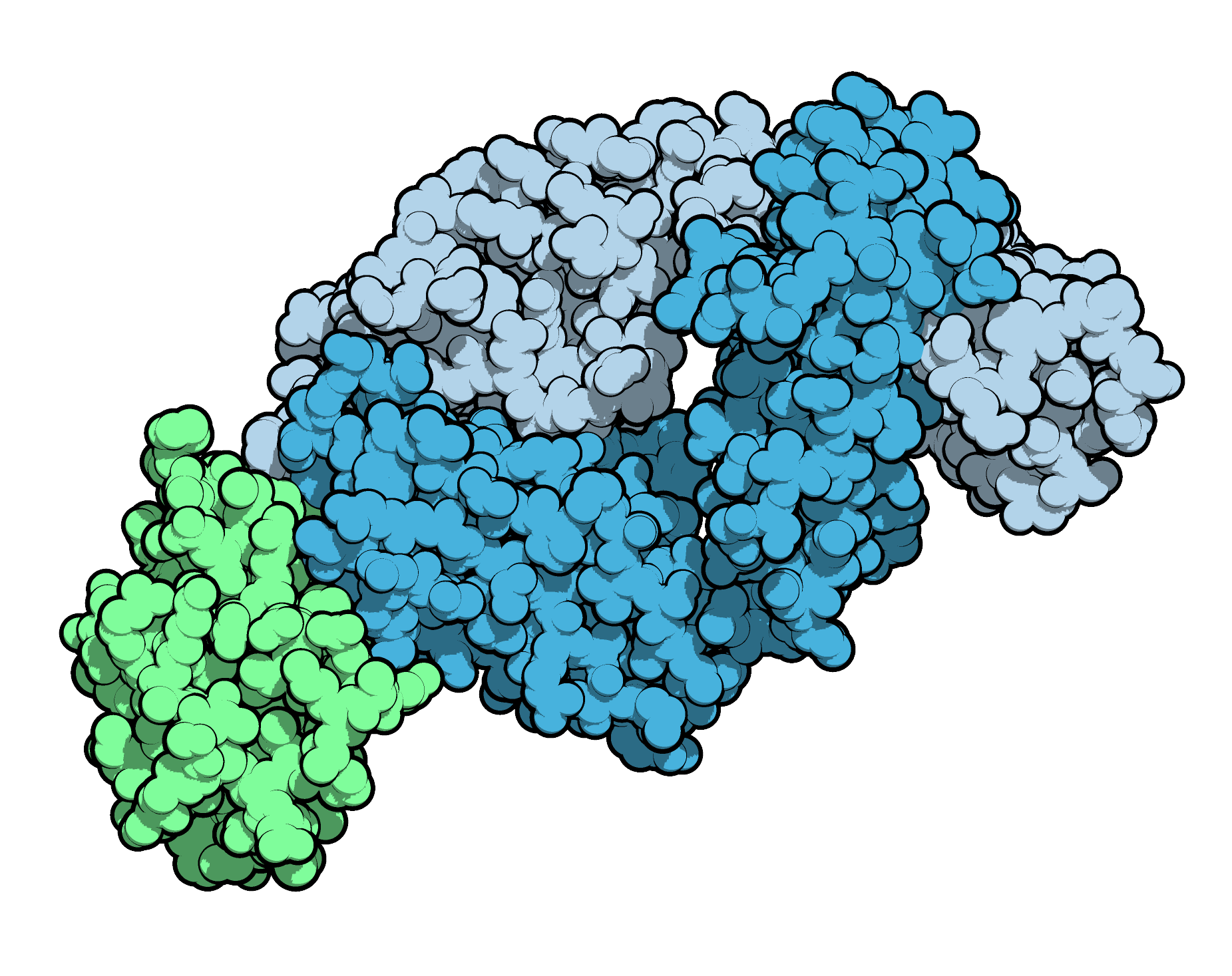 Space-filling model of the Fab fragment of the monoclonal antibody tralokinumab (blue) bound to its target, interleukin 13 (green). Style made to resemble the Protein Data Bank's "Molecule of the Month" series, illustrated by Dr. David S. Goodsell of the Scripps Research Institute. Created using QuteMol ( Optimized with OptiPNG.